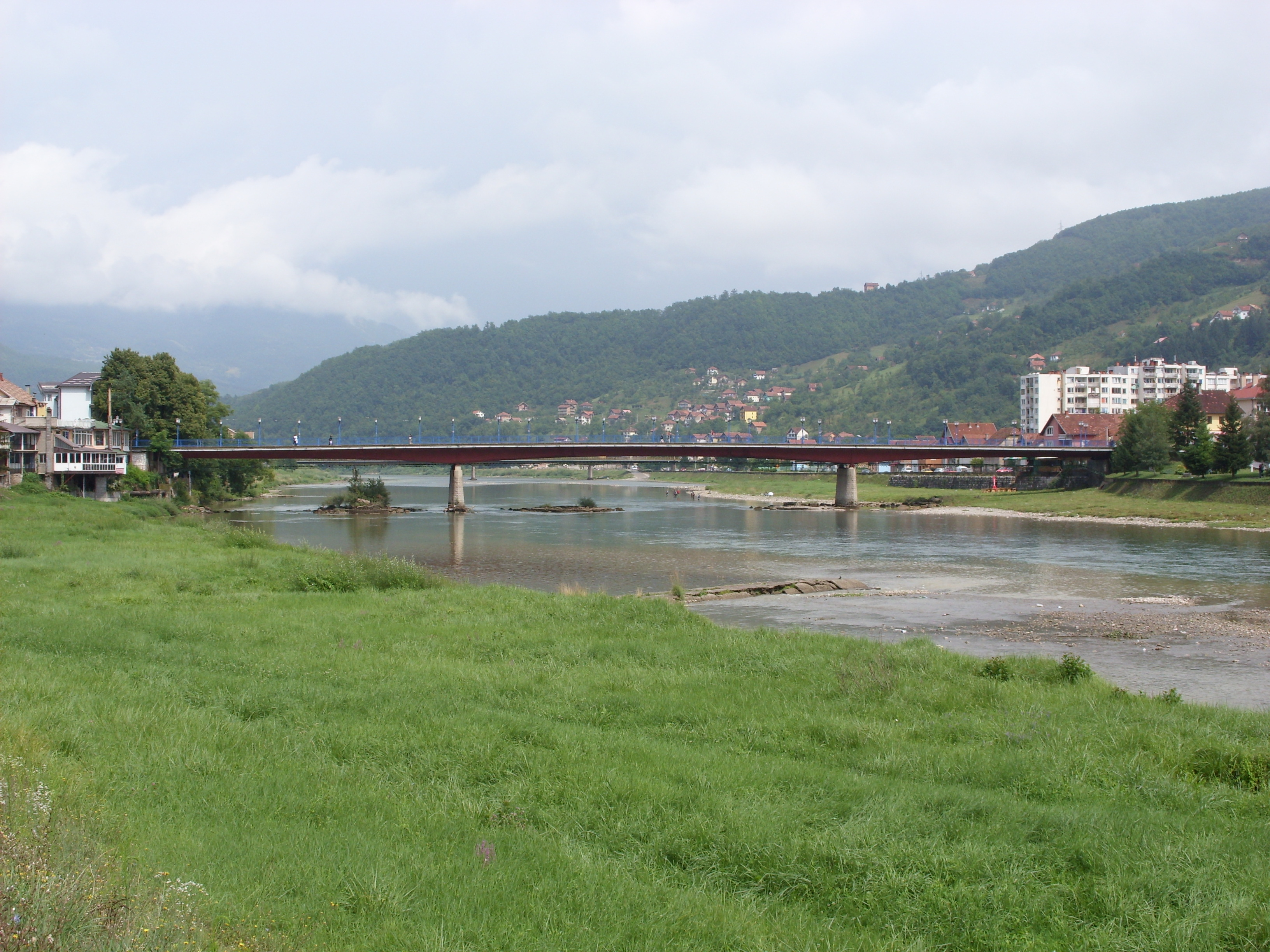 Drina River in Goražde, Bosnia Hornjoserbsce: Rěka Drina w Goraždźe, Bosniska